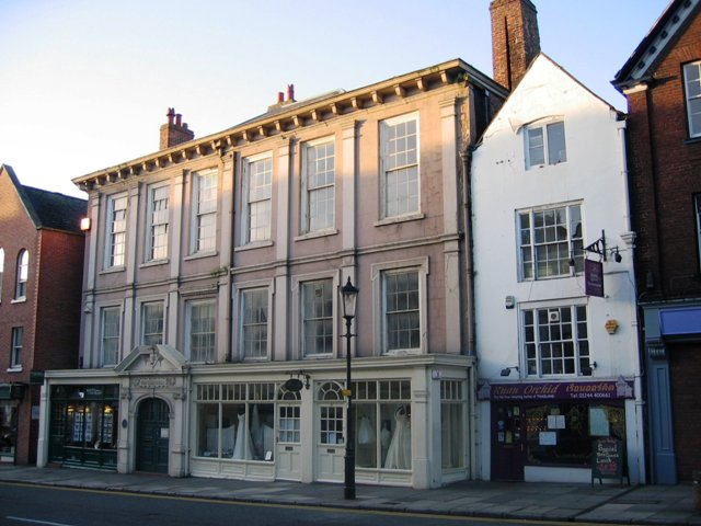 The Oddfellows Hall, Lower Bridge Street The information plaque by the door states: 'This early 18th century mansion, originally called Bridge House, was built for John Williams, Attorney General of Cheshire and Flintshire. The projecting shops and larger northern bay are later editions. It is now a meeting hall'. The shop to the left of the front door used to be the Crosville Motor Services waiting room when Lower Bridge Street was the bus terminus for several routes into the city. The narrow shape of the Thai restaurant next door suggests that it is of very early origin.